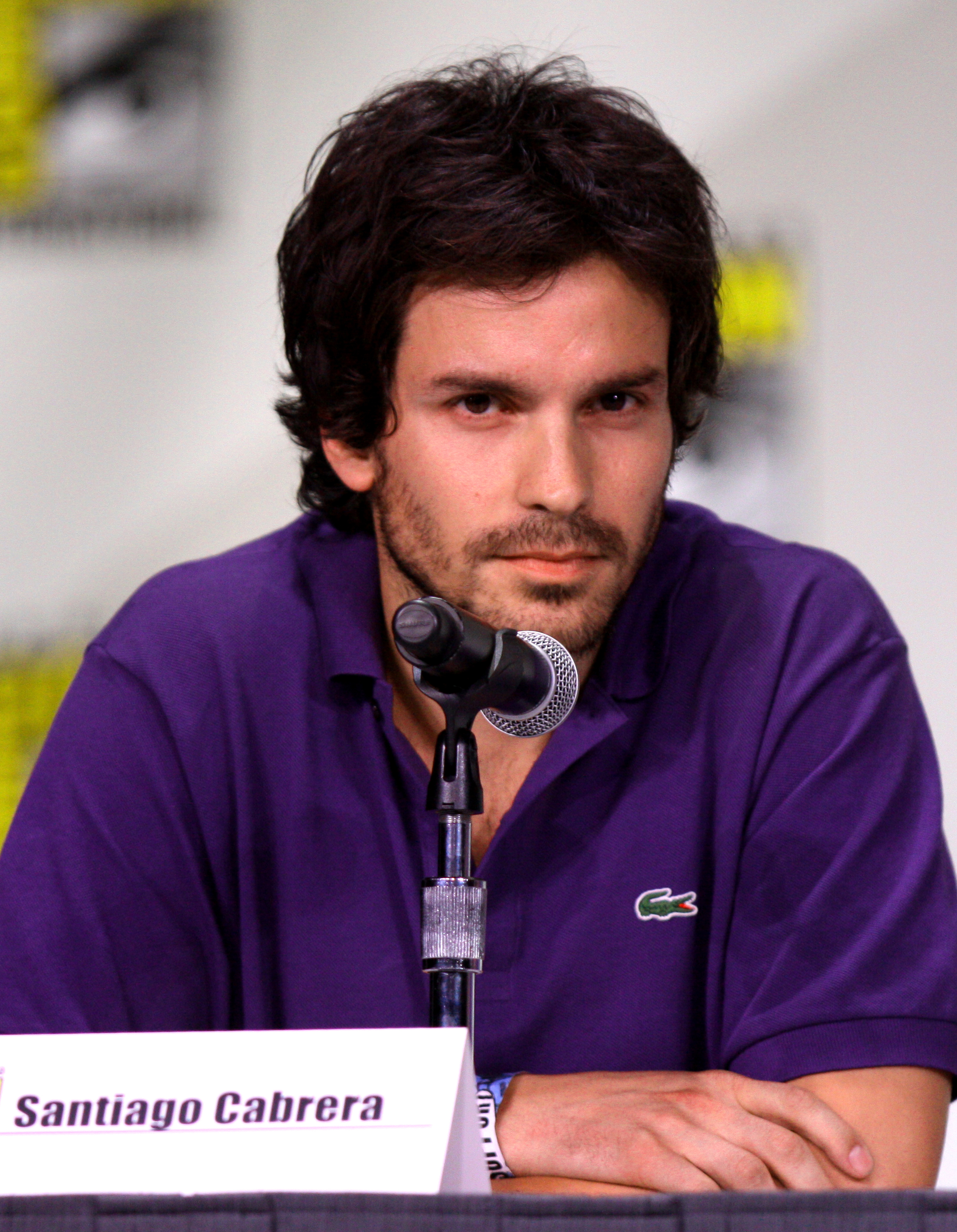 Santiago Cabrera at the 2011 Comic Con in San Diego